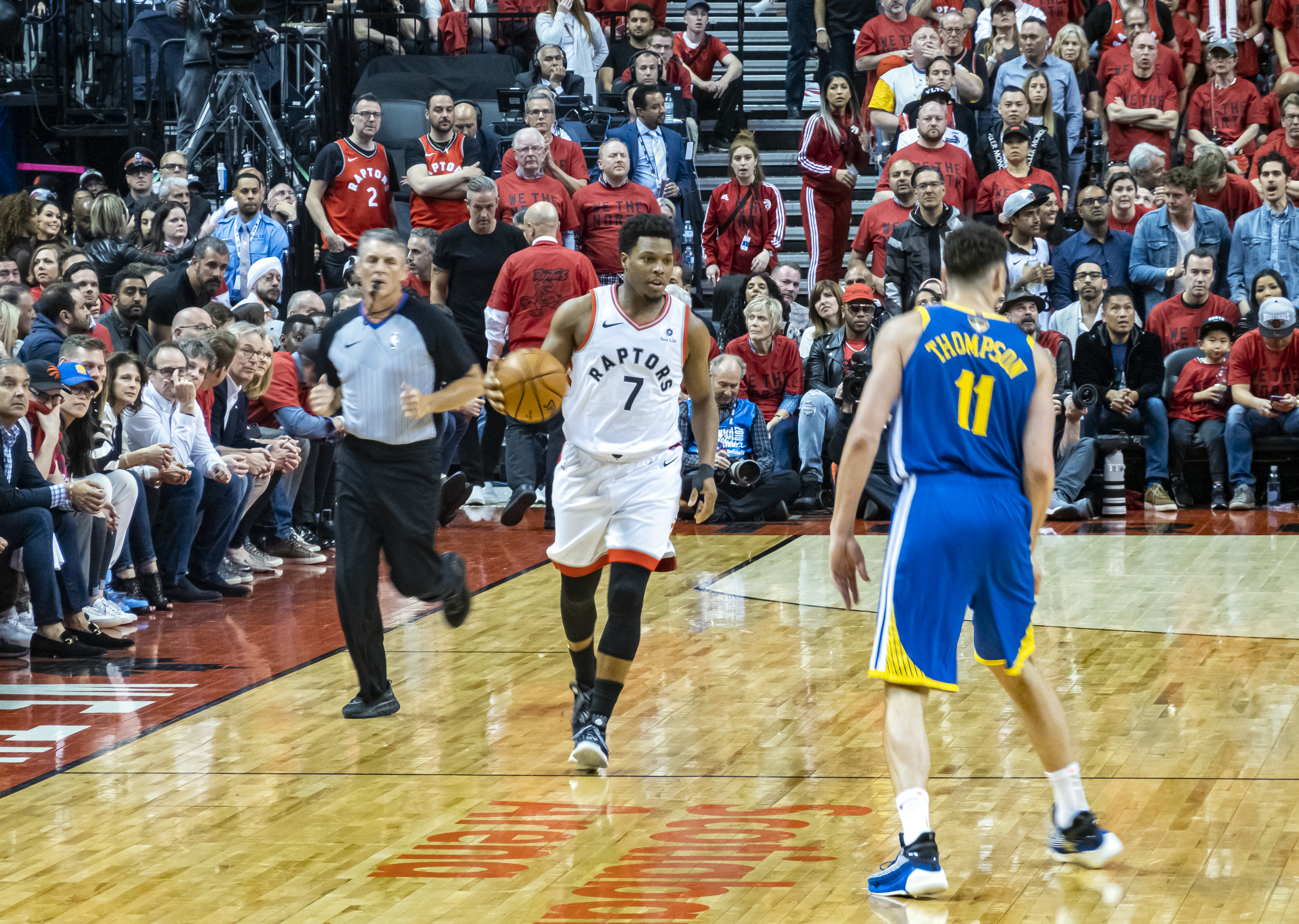 kyle lowry toronto raptors game 2 2019 nba finals scotiabank arena